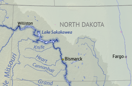 Map of the Missouri River drainage basin in the US and Canada. made using USGS and Natural Earth data. Replacement for File:Missouririvermap.jpg.